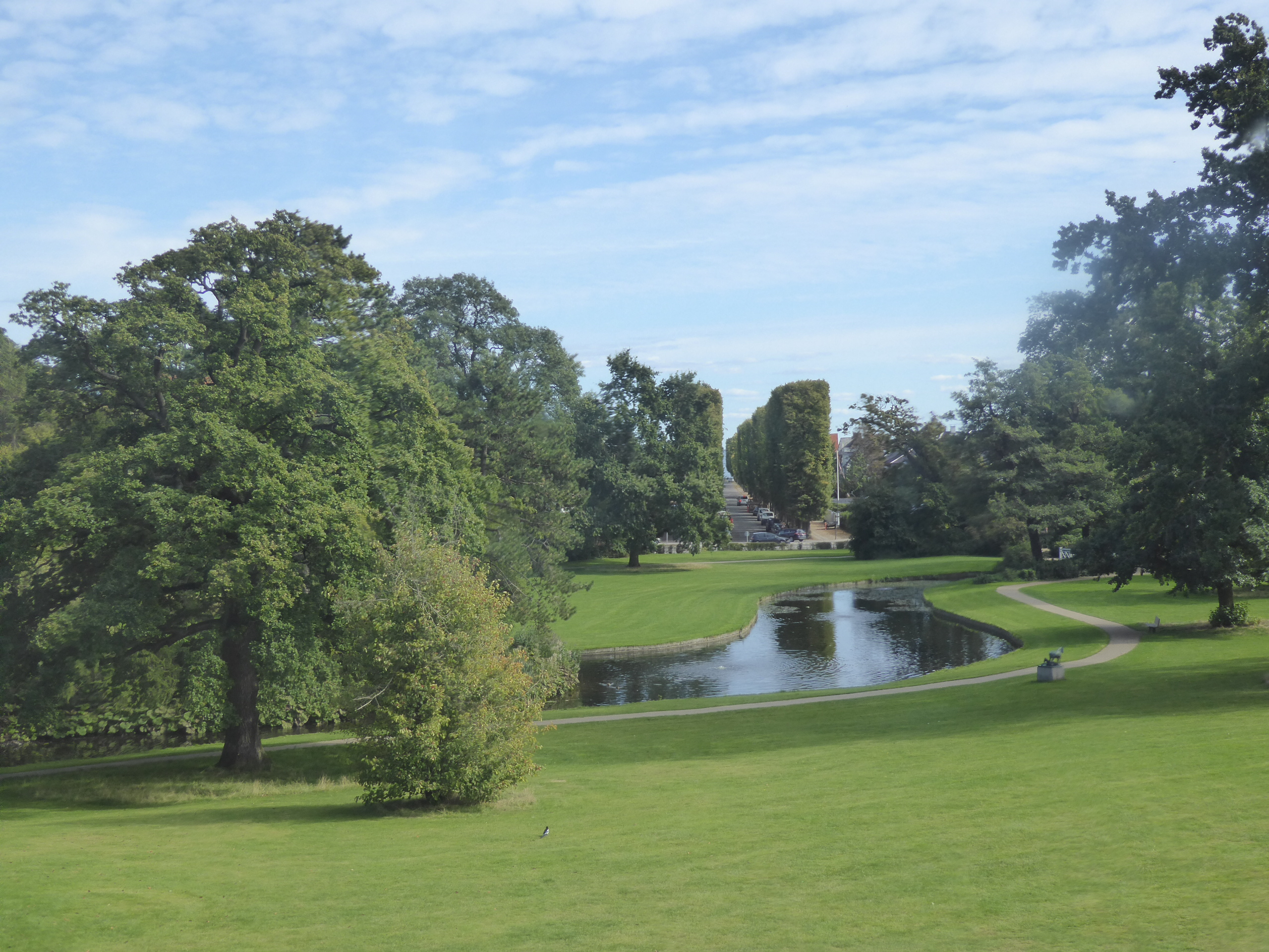 Øregårdsparken in Hellerup, Copenhagen, Denmark